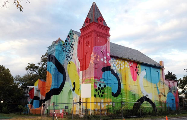 Blind Whino church